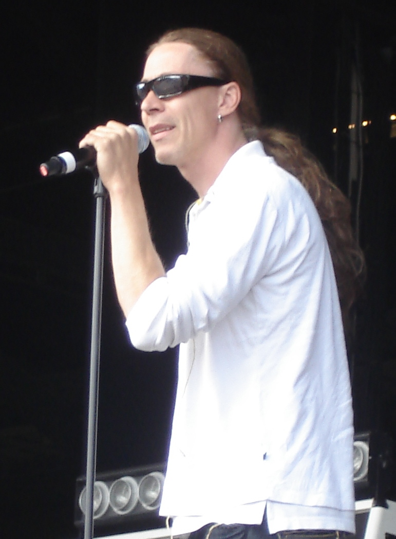 E-Type during a soundcheck before a concert in Liseberg, Gothenburg, Sweden on 17 June 2008.